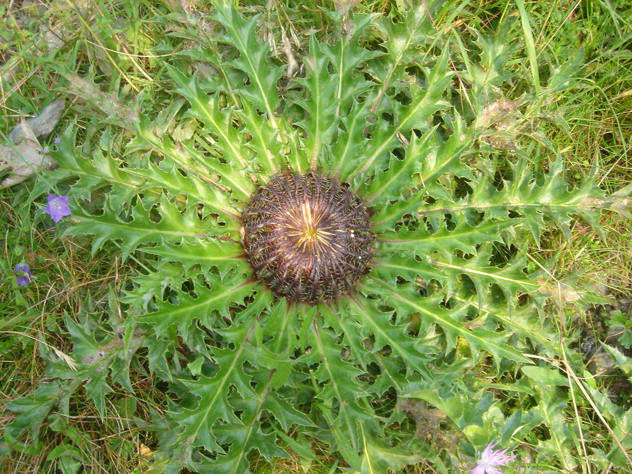 Carlina acanthifolia closed